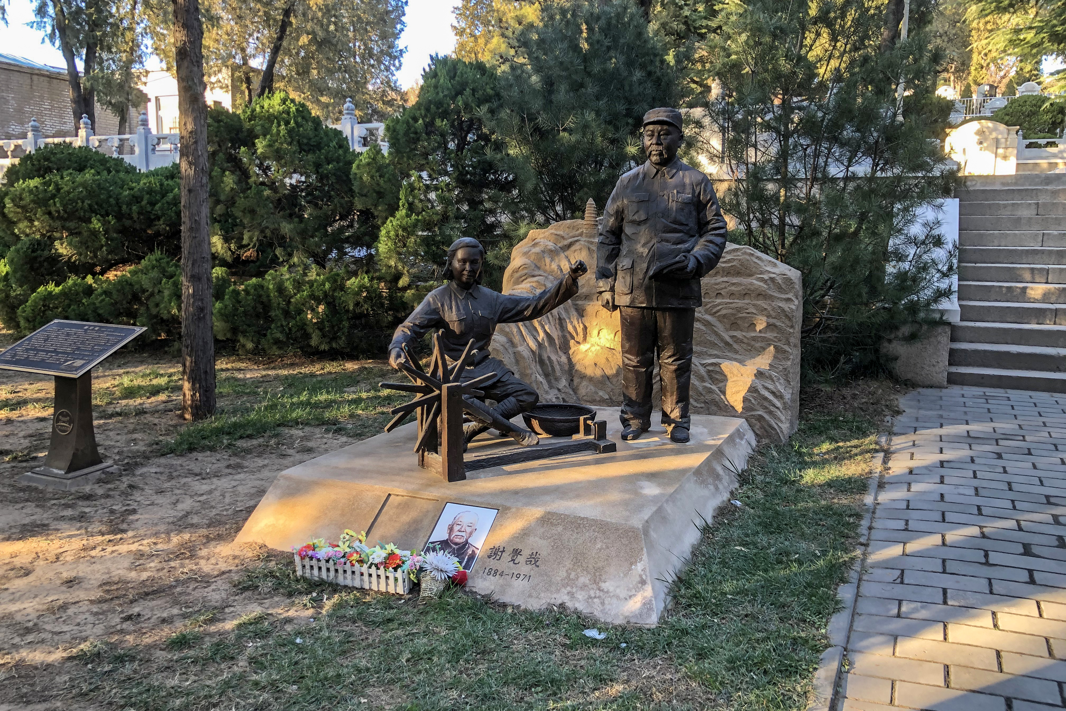 Xie Juezai (1884-1971) with Yan'an as background.